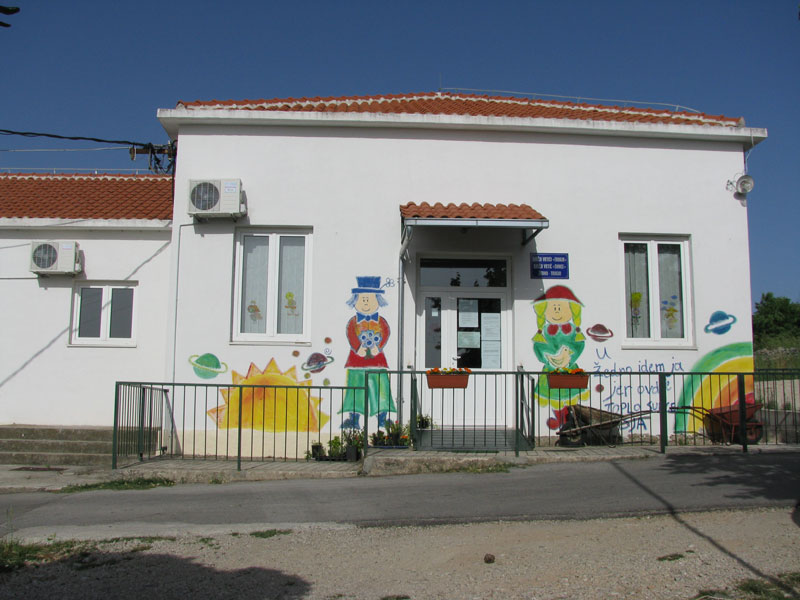 Kindergarden in Žedno, Croatia